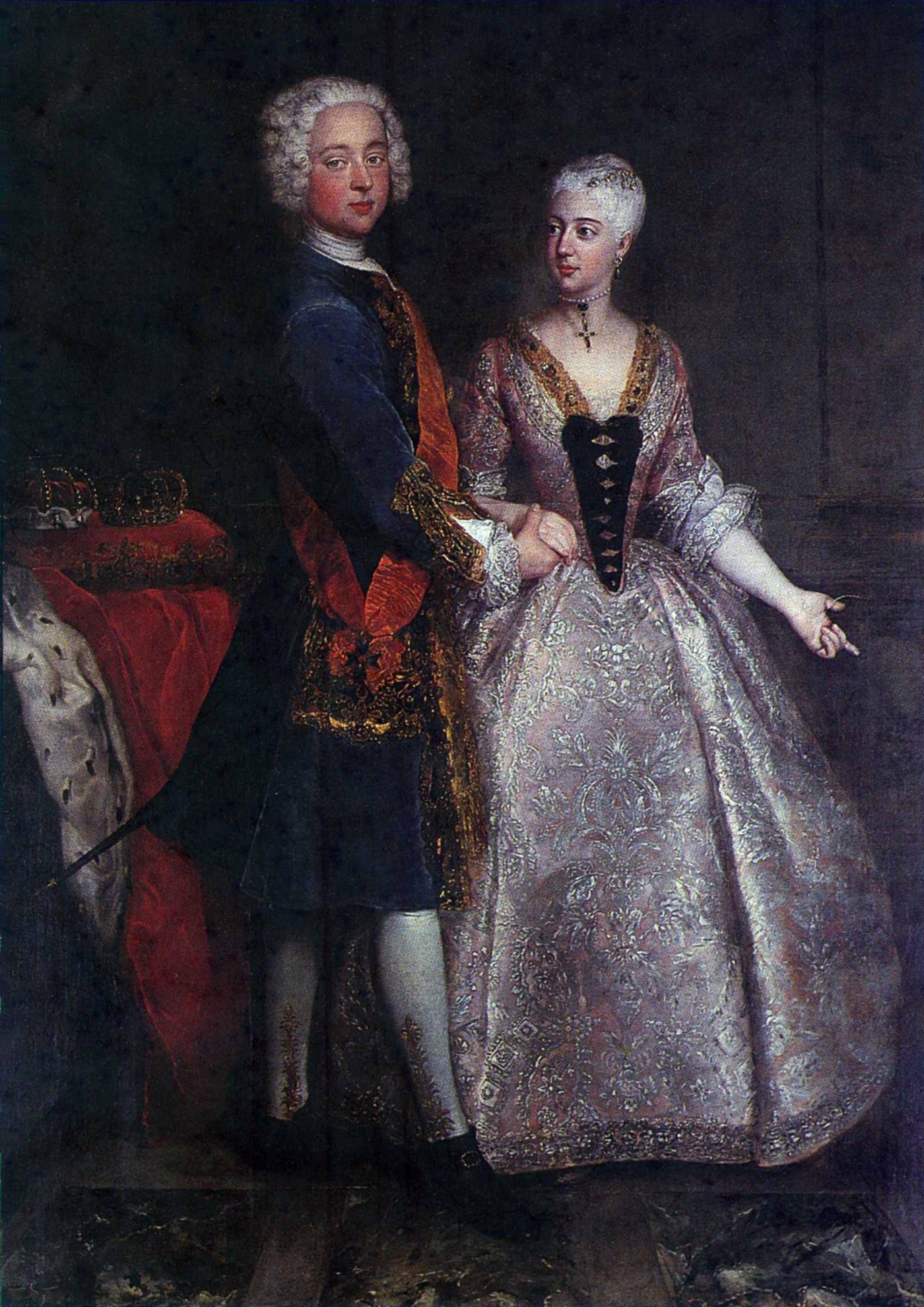 Portrait of Charles William Frederick, Margrave of Brandenburg-Ansbach (1712-1757) and his wife Princess Friederike Luise of Prussia (1714-1784)